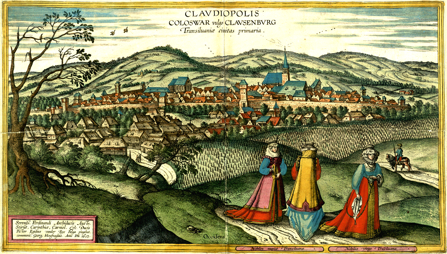 17th century view of Cluj-Napoca